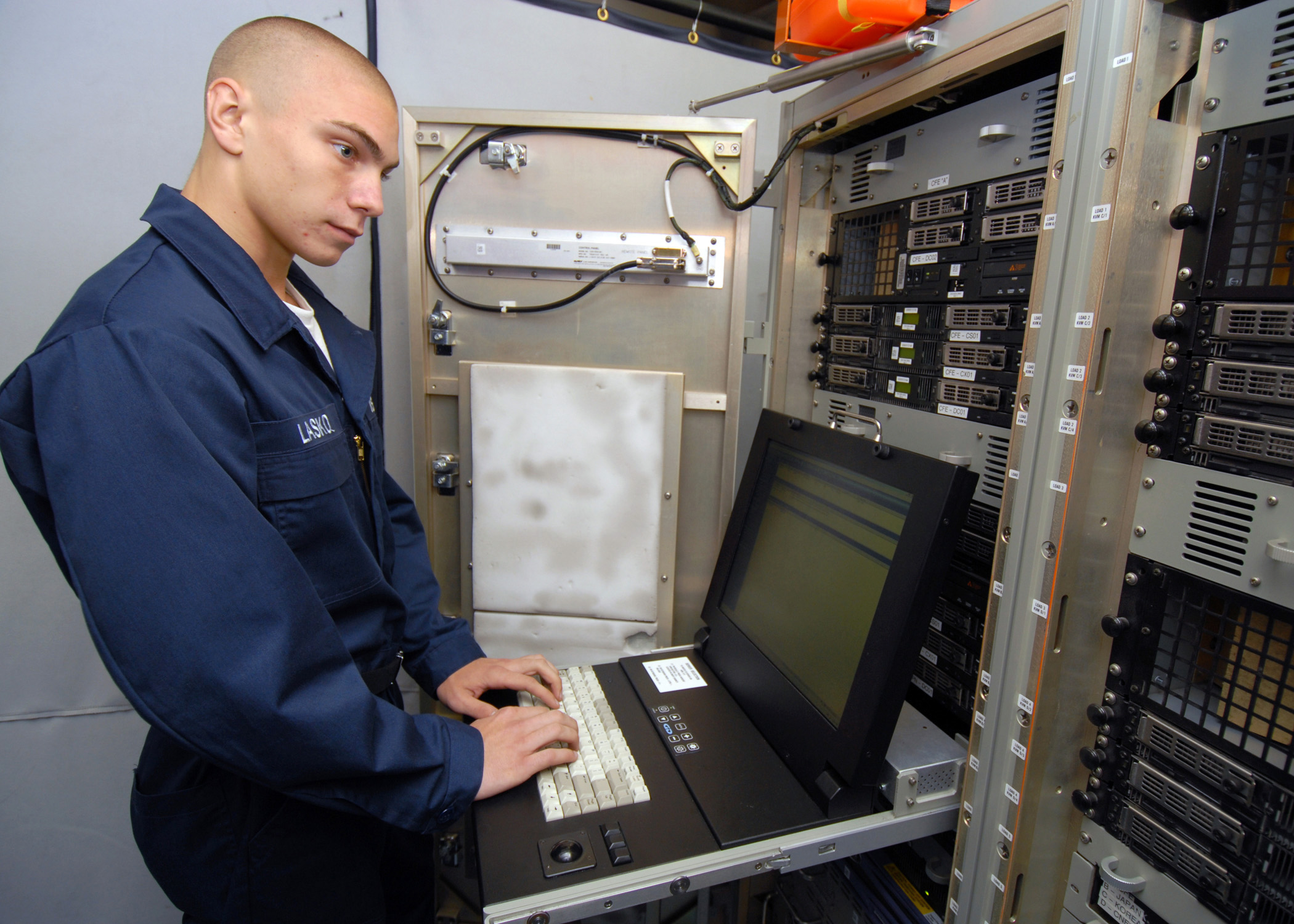 NORTH ARABIAN SEA (Aug. 23, 2008) Information Systems Technician Seaman Joel V. Lasko, from Salisbury, Conn., performs backups on Centrixs in the tactical automated information systems center aboard the aircraft carrier USS Abraham Lincoln (CVN 72). Lincoln is deployed to the U.S. 5th Fleet area of responsibility supporting Operations Iraqi Freedom and Enduring Freedom as well as maritime security operations. (U.S. Navy photo by Mass Communication Specialist 3rd Class Ronald A. Dallatorre/Released)